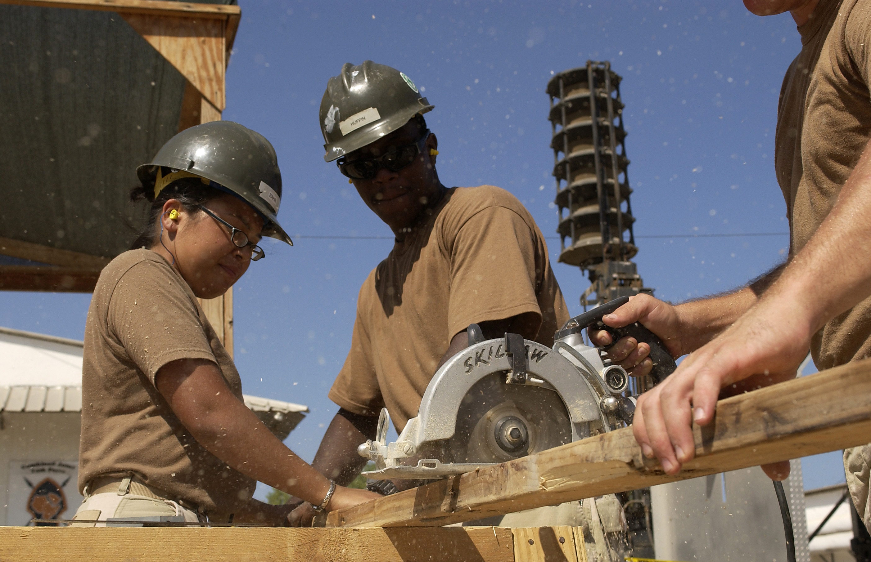 Camp Lemonier, Djibouti (Nov. 8, 2005) - U.S. Navy Constructionmen Aurora Bahr, Tyrone Huffin, and Chad Smith, all assigned to Naval Mobile Construction Battalion Three (NMCB-3), cut wood that will be used to make flooring for new buildings at Camp Lemonier, Djibouti. The Seabees of NMCB-3 are constructing two new buildings that will be used to combine and house future operations personnel assigned to Joint Task Force-Horn of Africa at Camp Lemonier. U.S. Air Force photo by Staff Sgt. Stacy L. Pearsall (RELEASED)